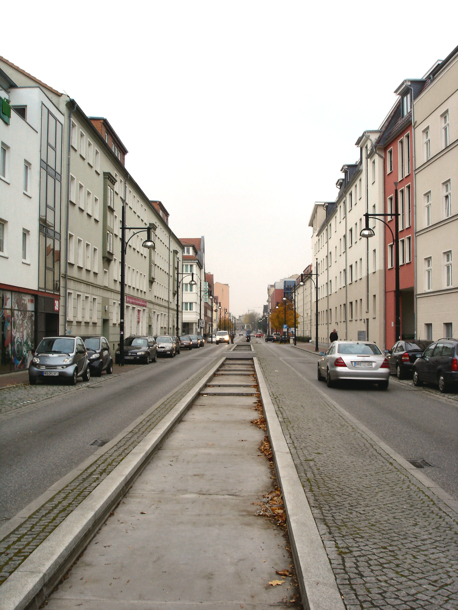 Street in the historic city of Rostock